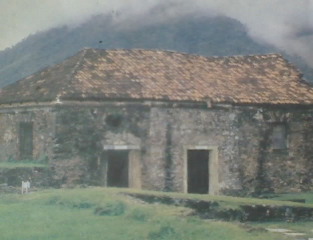 Fortress of Santa Barbara in Trujillo, Honduras